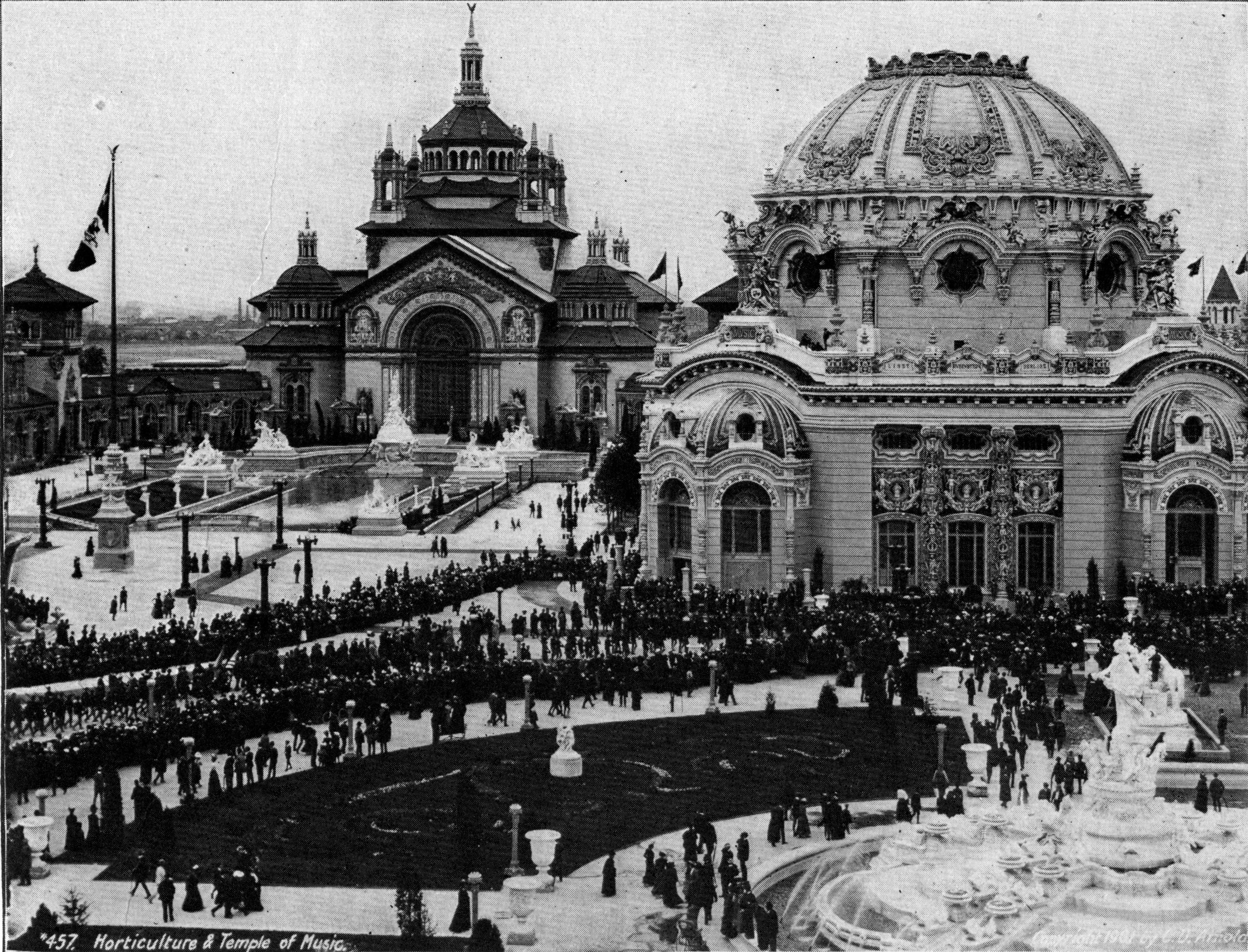 Original caption: "Horticulture Building and Temple of Music - This view of these buildings was taken on Dedication Day, May 20th, and shows the procession of distinguished guests entering the Temple of Music, Vice-President Roosevelt at the head. Thousands of spectators witnessed the entrance of the guests of honor to the Temple of Music."